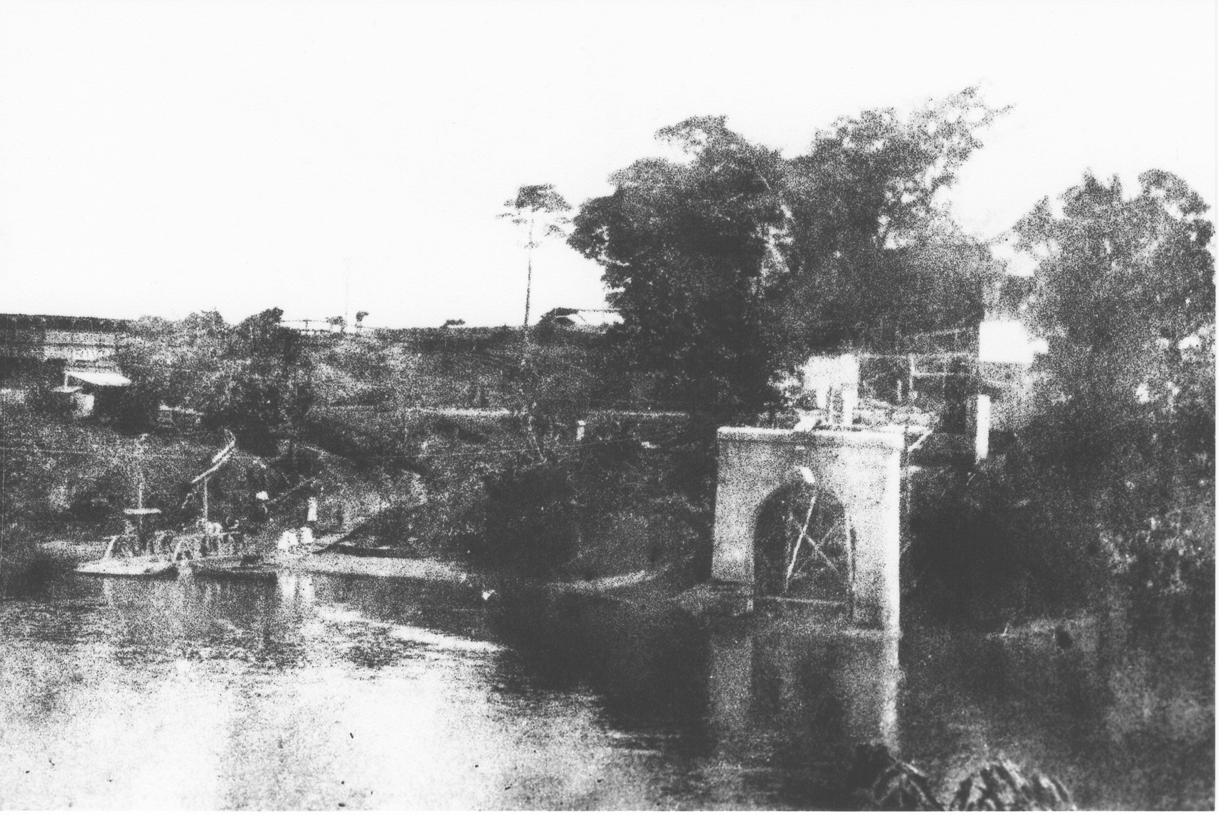 photo courtesy of the Innisfail and District Historical Society